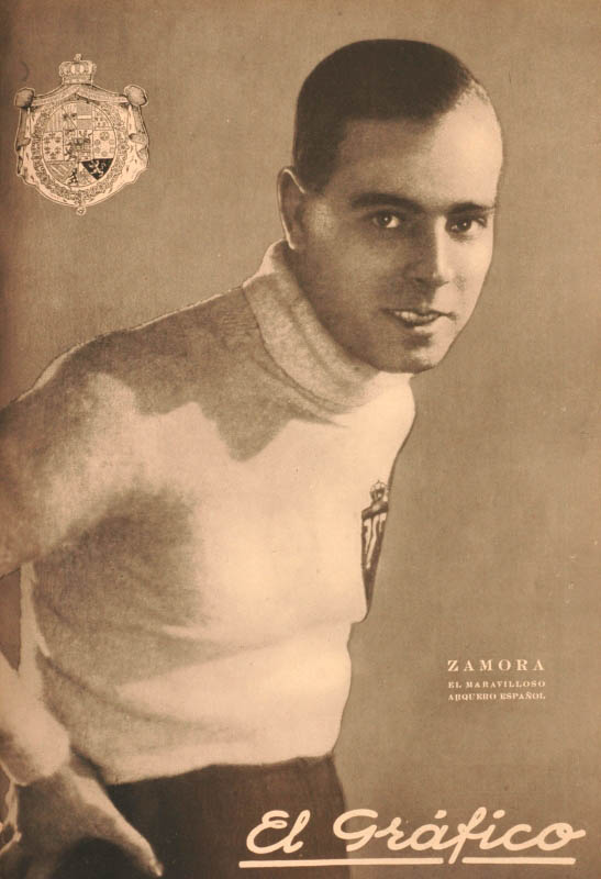 Spanish football goalkeeper Ricardo Zamora on the cover of El Gráfico sports magazine of Argentina. Caption says: "El maravilloso arquero español (the wonderful Spanish goalkeeper)".